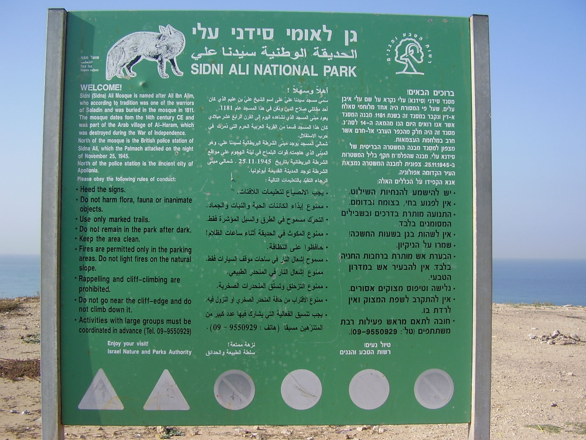 sidna ali national park שלט הסבר בגן לאומי סידנא עלי